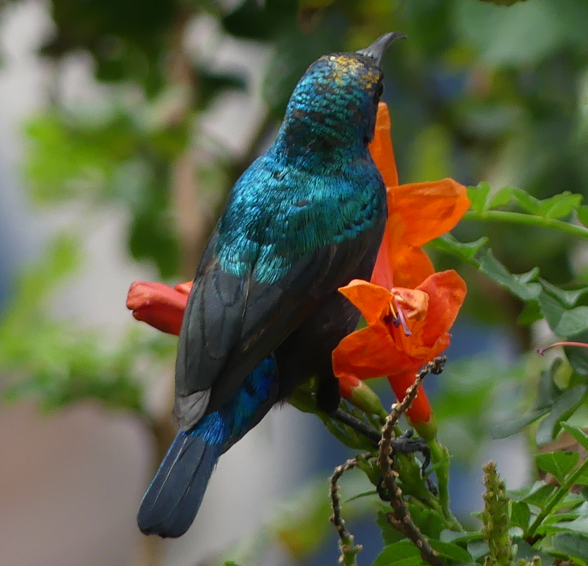 A Palestine sunbird (Cinnyris osea) feeding on flowers in the garden of the house of late scenographer Ghazi Kahwaji (1945-2017) near the archaeological Al Mina site in Tyre/Sour, Southern Lebanon. The species was declared the national bird of Palestine in 2015